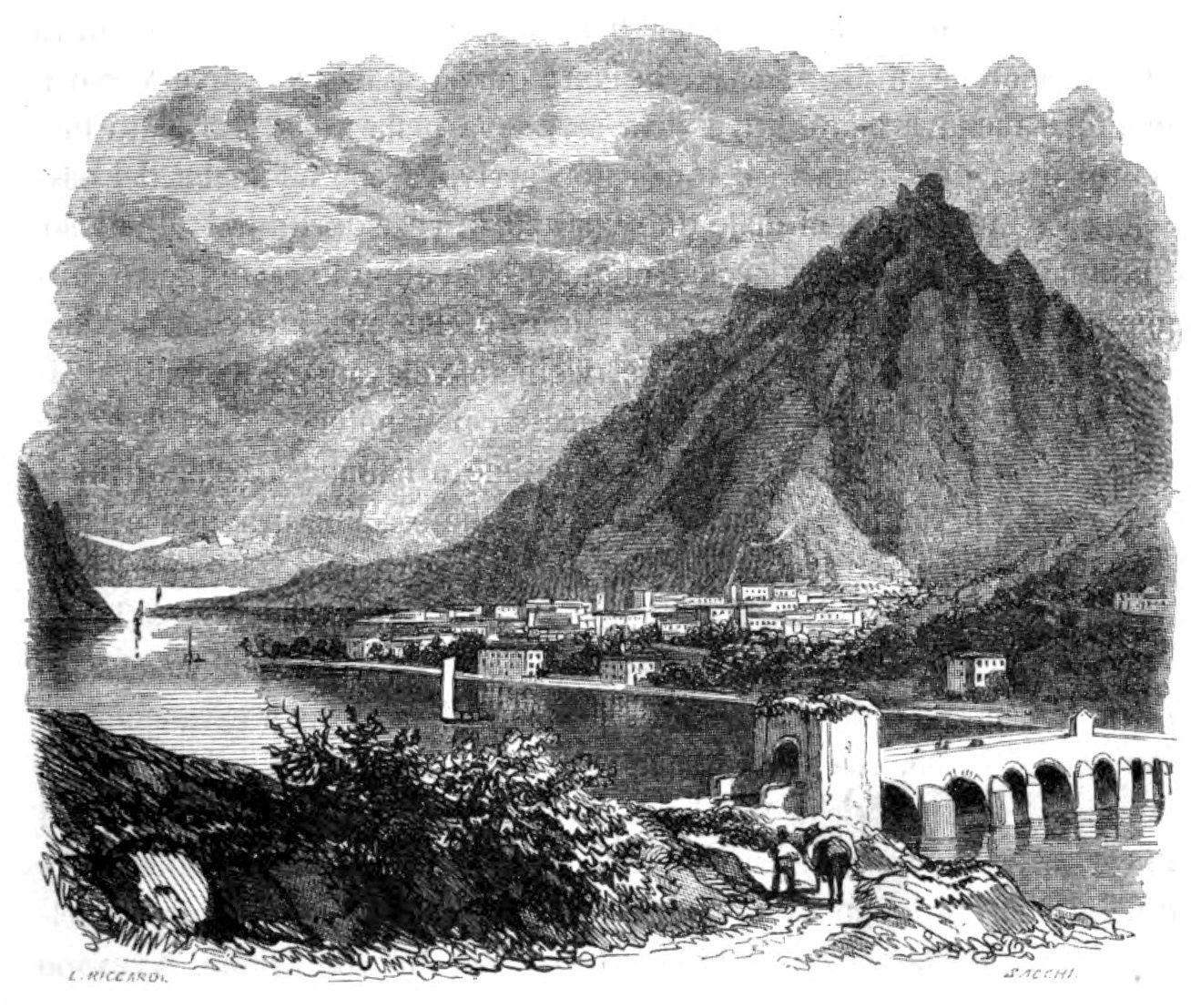 Picture from "I promessi sposi" of Lake Como (ch.1)